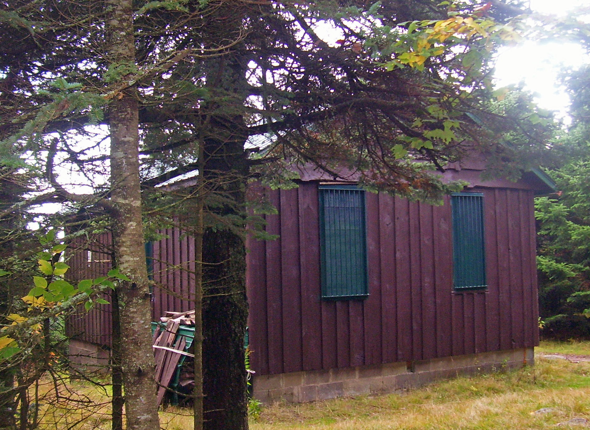 Observer's cabin at Balsam Lake Mountain fire tower, Hardenburgh, NY, USA